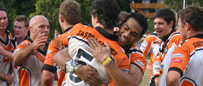 Photo taken at Langlands Park by myself when Easts made the semi-finals in 2005.